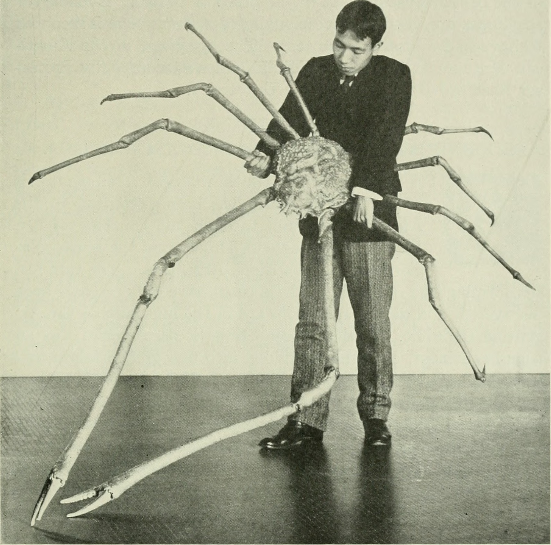 Giant Spider Crab from Japan Title: The American Museum journal Year: c1900-(1918) (c190s) Authors: American Museum of Natural History Subjects: Natural history Publisher: New York : American Museum of Natural History Text Appearing Before Image: THE AMERICAN MUSEUM JOURNAL Text Appearing After Image: GIANT SPIDER CRAB FROM JAPAN THE GIANT SPIDER CRAB. THE Department of Invertebrate Zoology has recently placed on exhibition in the Synoptic Hall (No. 107) on the ground floor of the Museum a fine specimen of the largest of all Crustaceans, the Giant Spider Crab, Kccinpferia (Macrocheira) kcBnipferi de Haan, which measures somewhat over 12 feet between the tips of its outstretched claws. This animal is known to occur to a depth of over 2000 feet in the seas off the coast of 25